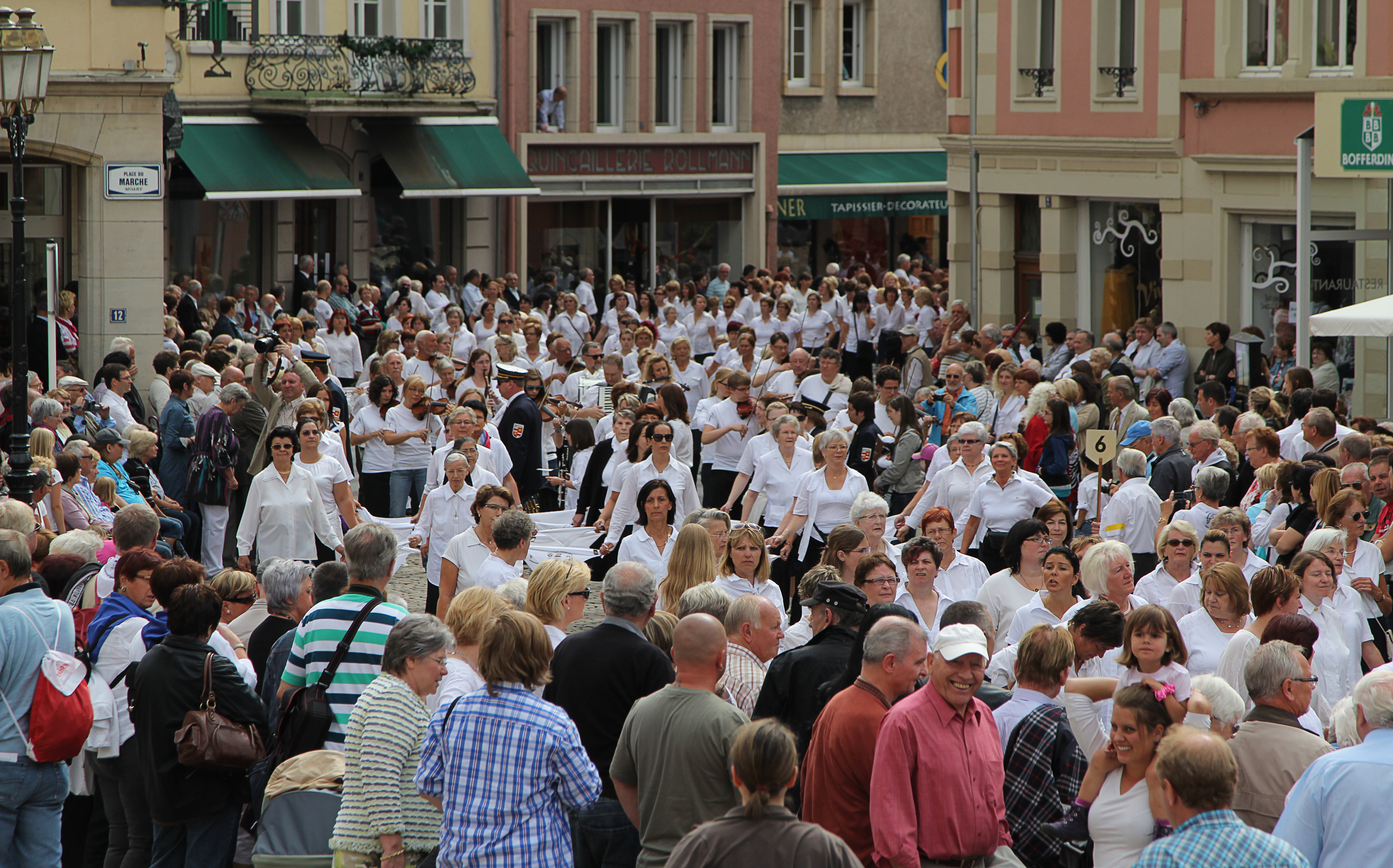 The St Willibrord Dancing Procession of Echternach in the Place du Marché.